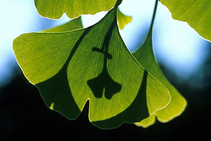 Ginkgo leaves in summer